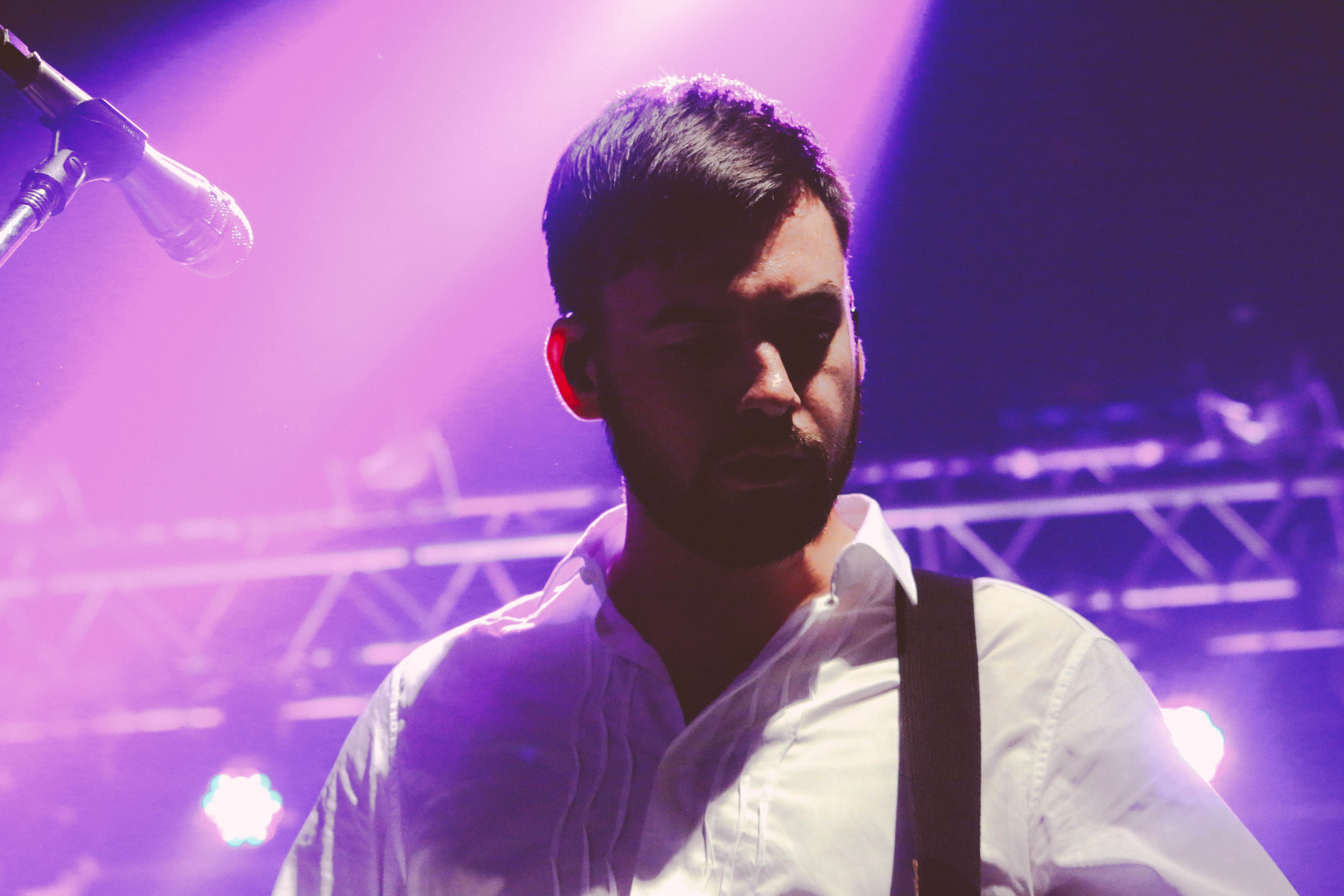 Ross performing in Buenos Aires, Argentina Photo for Reflektor Magazine